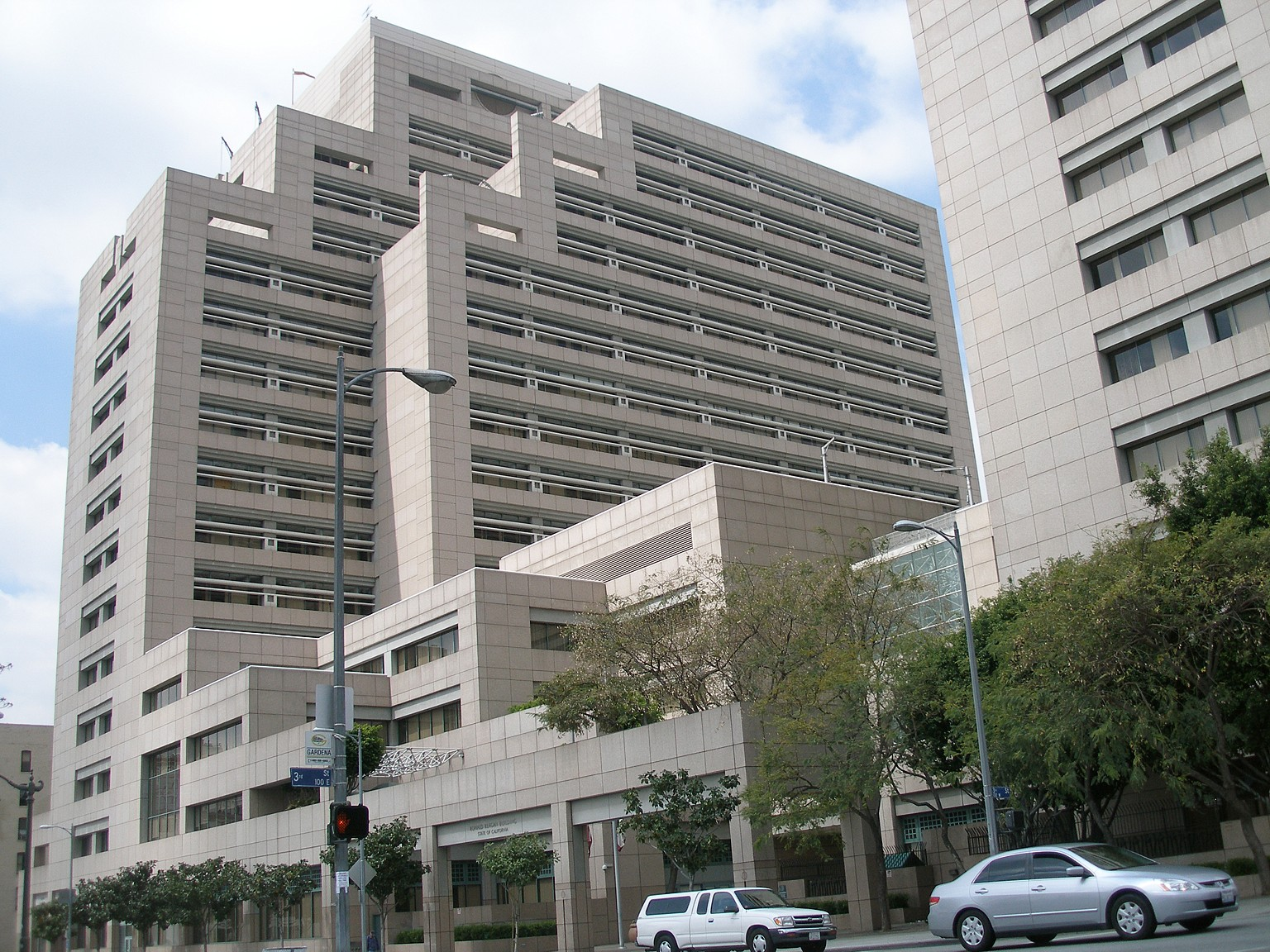 The Ronald Reagan State Building in the Civic Center district of Downtown Los Angeles, California. This building is home to the Los Angeles panels of the California Court of Appeal, Second District, as well as a branch office of the Supreme Court of California. The Supreme Court borrows the Court of Appeal's courtroom when it hears oral argument in Los Angeles.